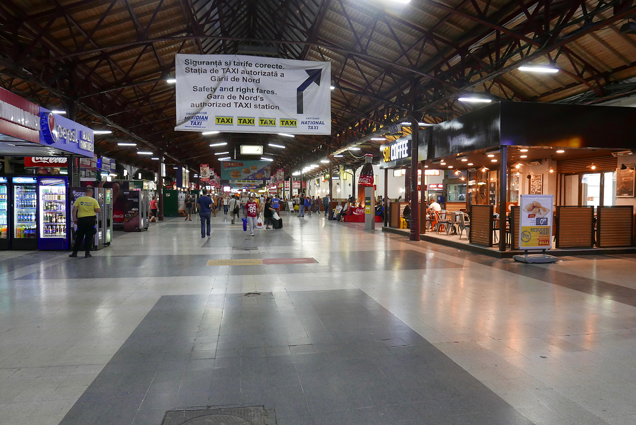 Interior of the Gara de Nord in Bucuresti.